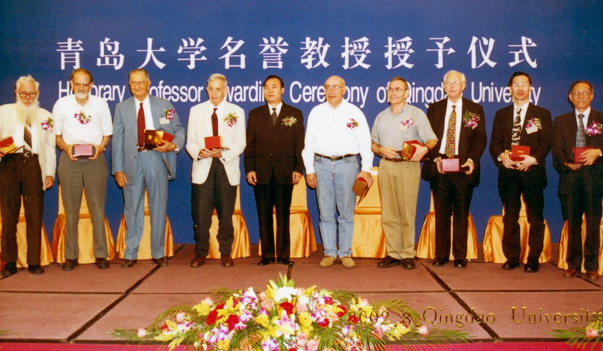 The International Congress of Mathematicians. Satellite Conference